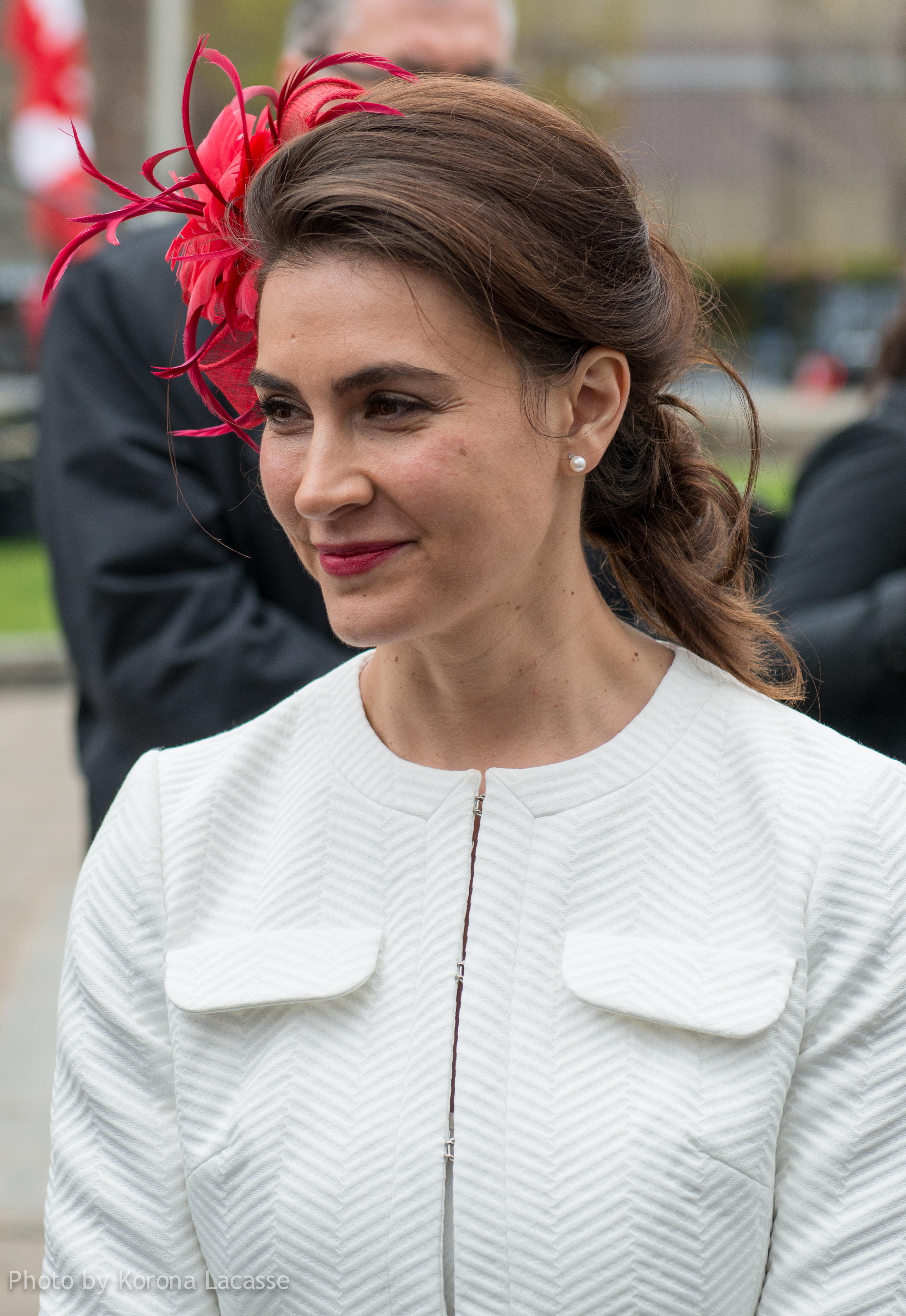 Day 2 of the Royal Visit to Canada - Halifax, NS